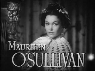 Cropped screenshot of Maureen O'Sullivan from the trailer for the film Pride and Prejudice